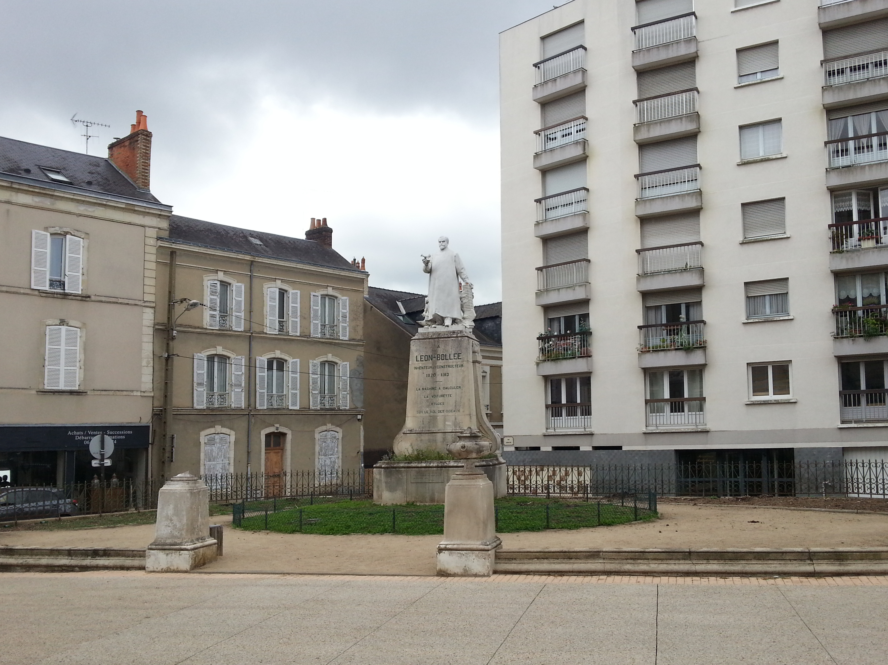 Situation photo of Léon Bollée's statue, in Le Mans.